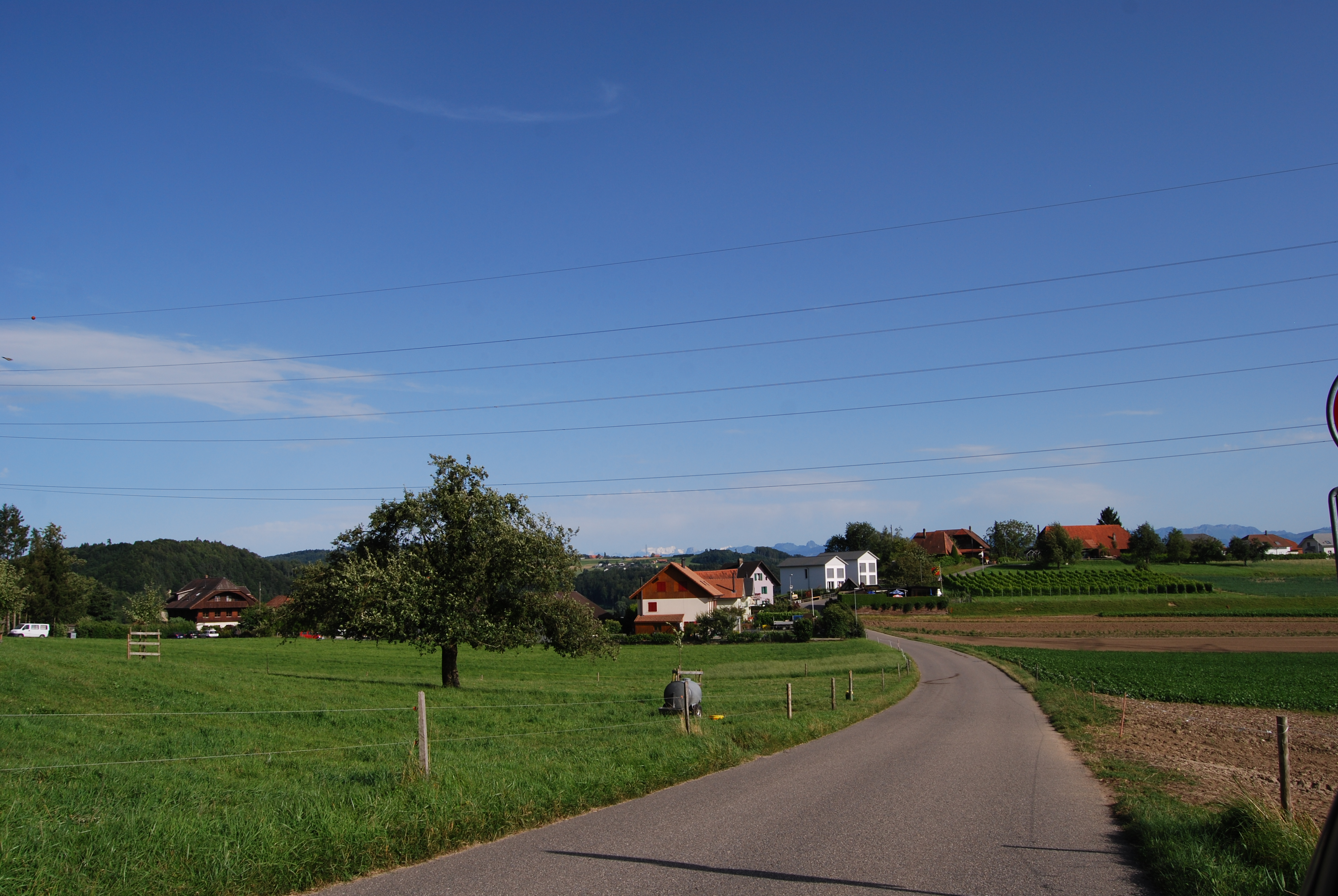 Wileroltigen, canton of Bern, SwitzerlandEsperanto: Wileroltigen, Kantono Berno, Svislando